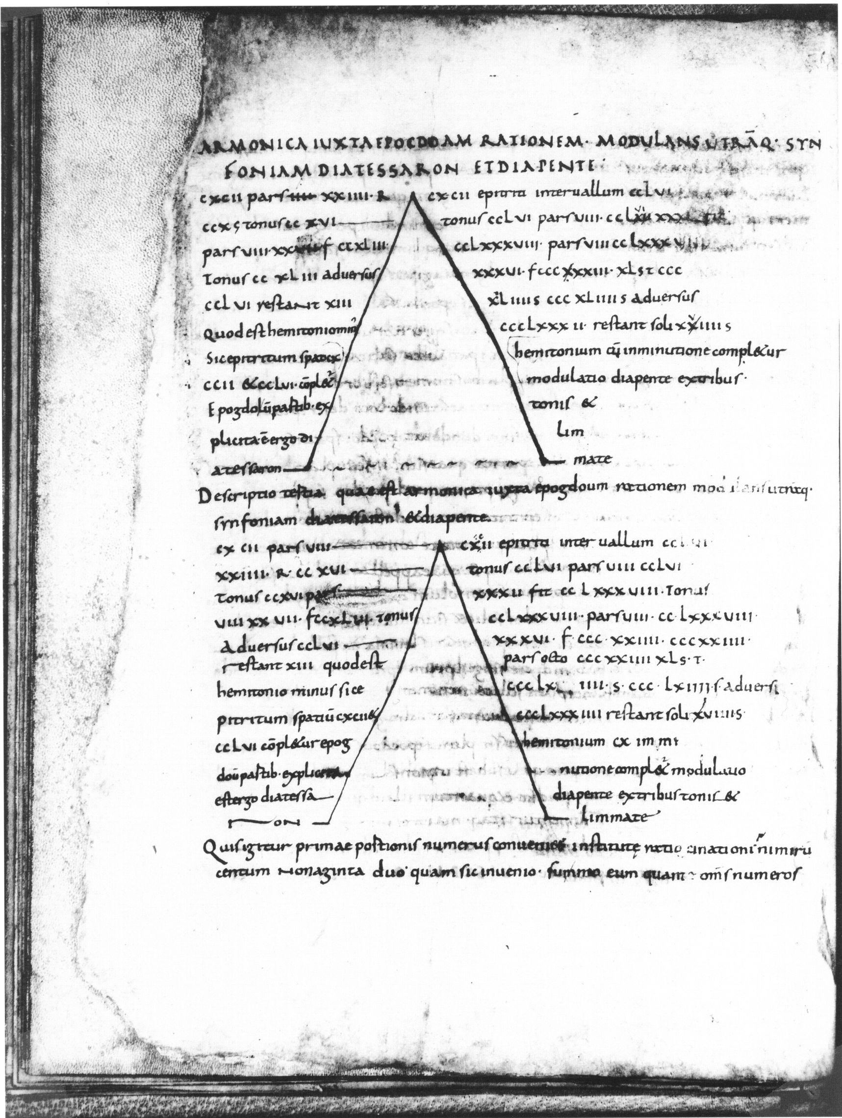 A diagram in Calcidius’ Commentary on Plato’s Timaeus. Manuscript Lyon, Bibliothèque municipale, 324, fol. 22v.